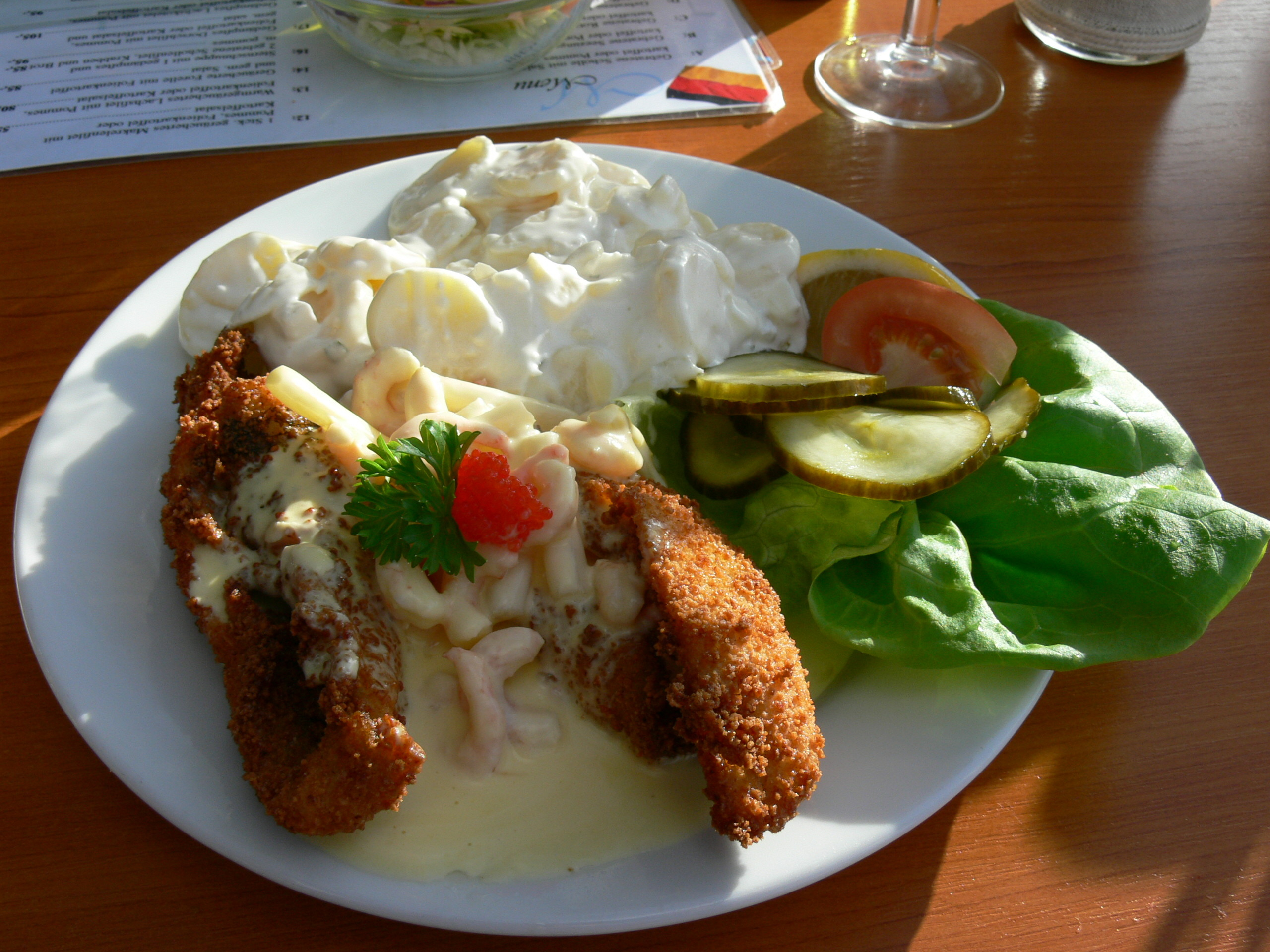 Rømø ( Denmark ). Sea food in a restaurant at the harbour of Havneby.